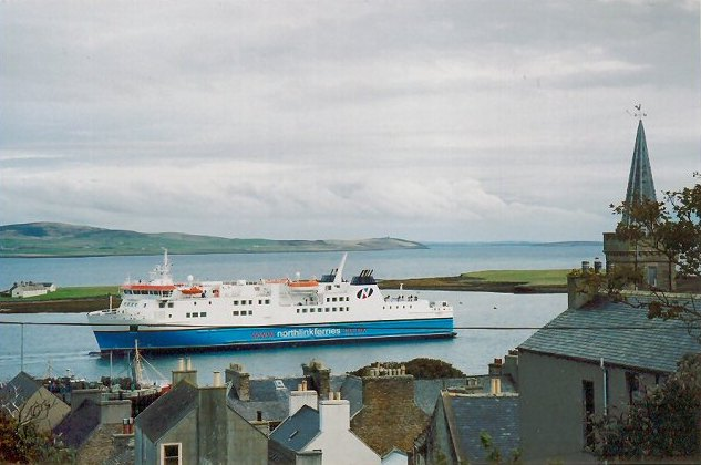 MV Hamnavoe at Stromness. Looking down on the harbour from a vantage point higher in the town the size of the ferry is quite striking. This is the Northlink ferry that crosses between Stromness and Scrabster.